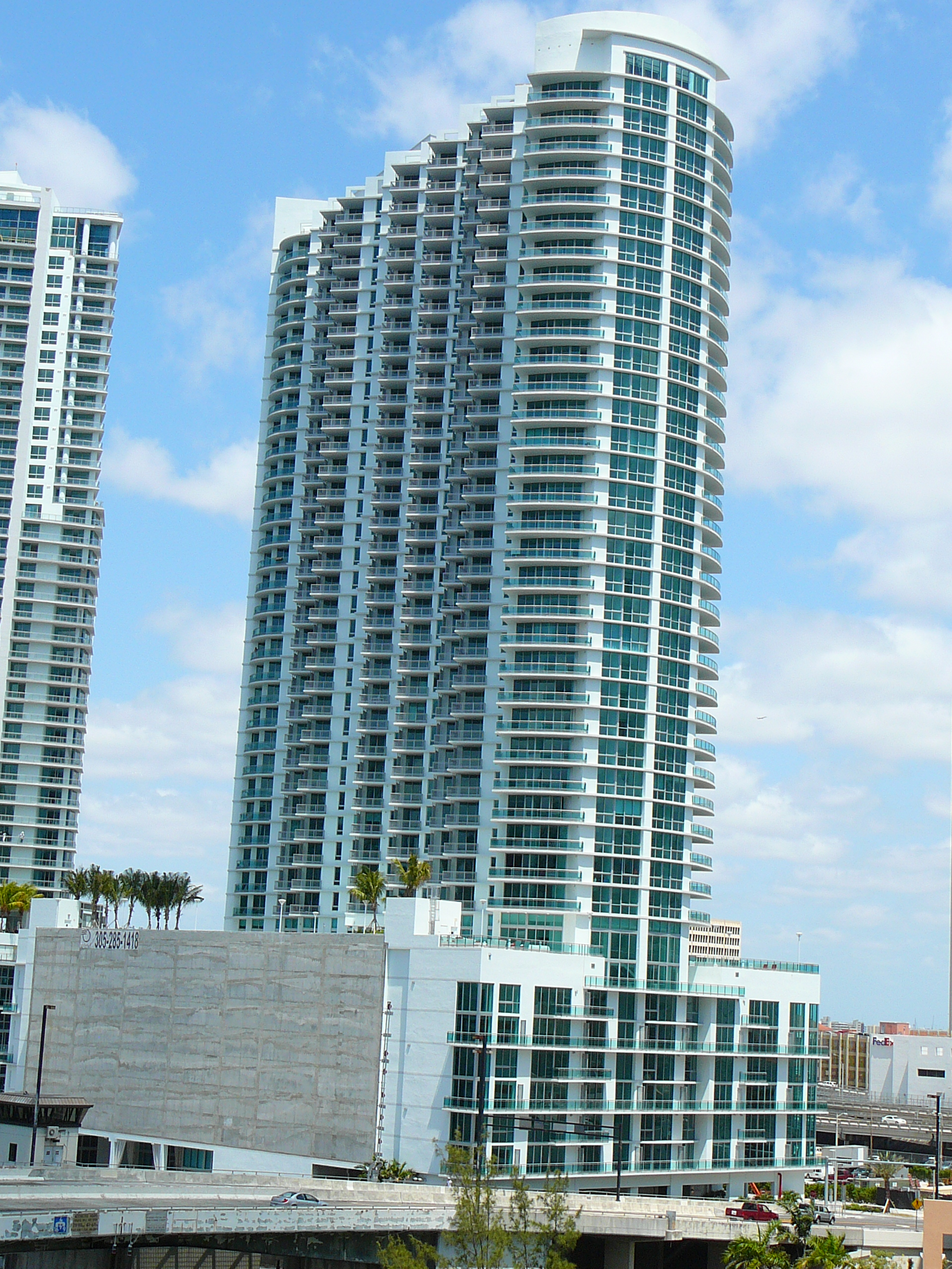 Digital photo taken by Marc Averette. The Wind Tower in downtown Miami, southeast view 5/14/2008